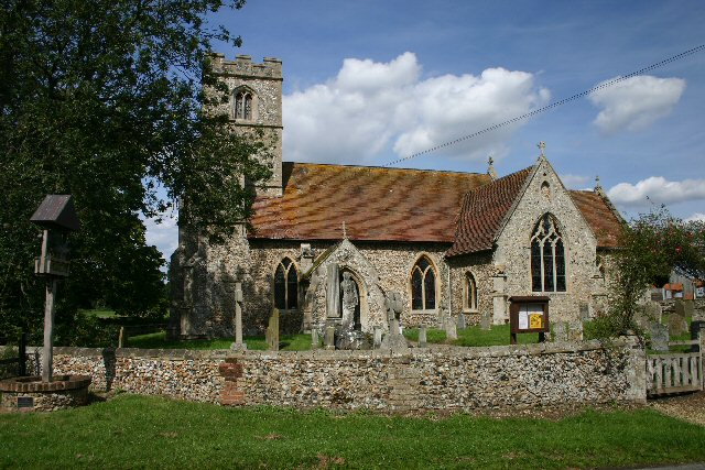 St Ethelbert's parish church, Herringswell, Suffolk, seen from the south